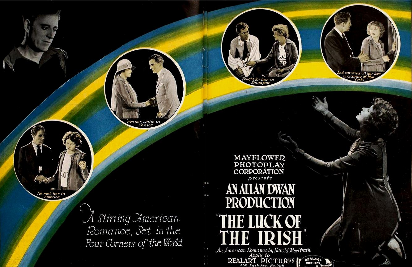 Advertisement for the American drama film The Luck of the Irish (1920) with James Kirkwood and Anna Q. Nilsson, on pages 3406 and 3407 of the April 17, 1920 Motion Picture News.